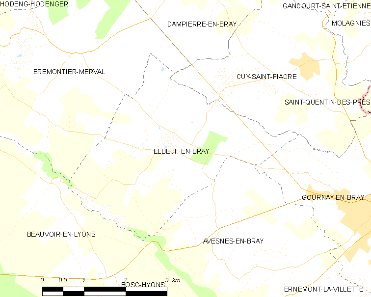 Map of French municipality Elbeuf-en-Bray